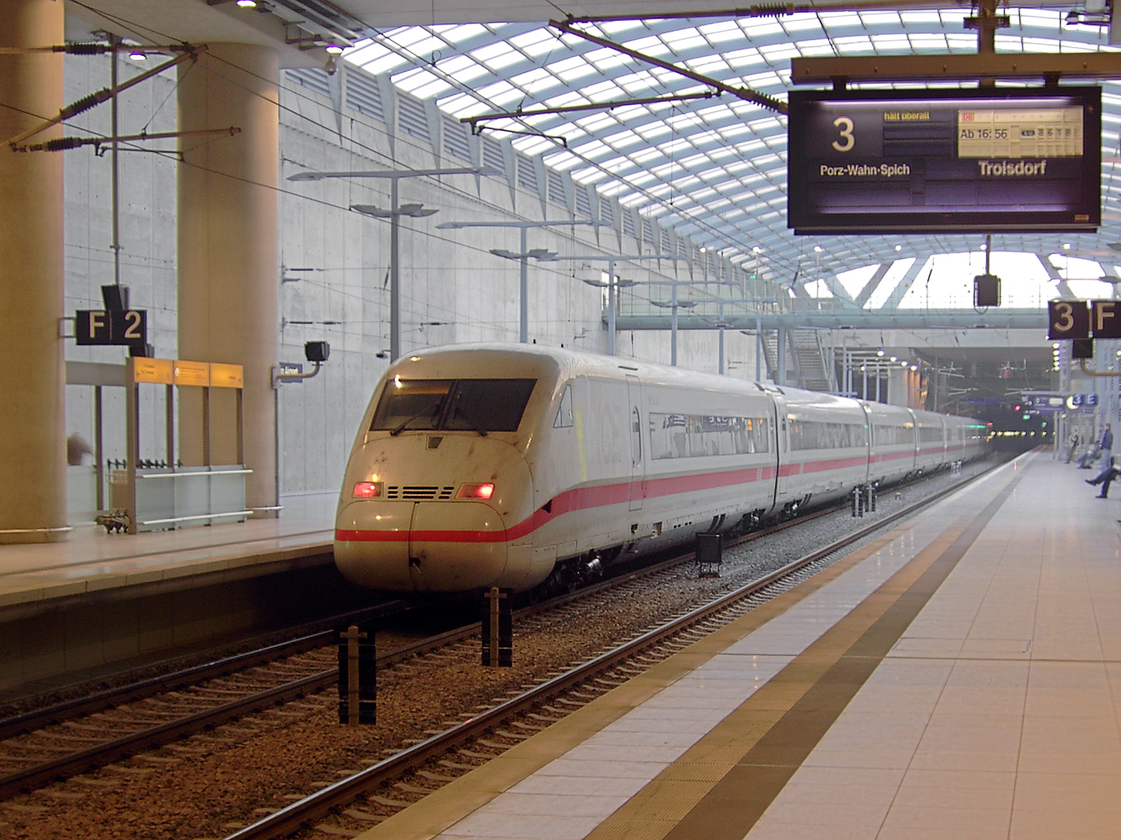 ICE2 at Köln/Bonn Airport station